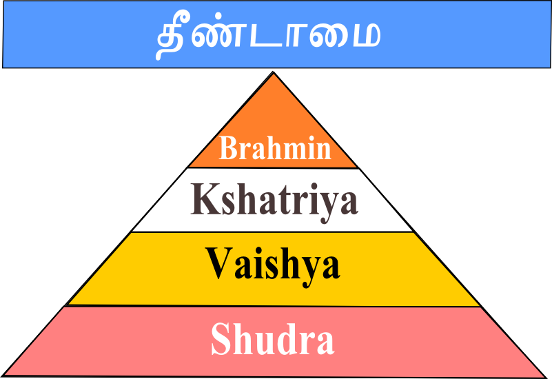 Untouchability in Indian Cate System